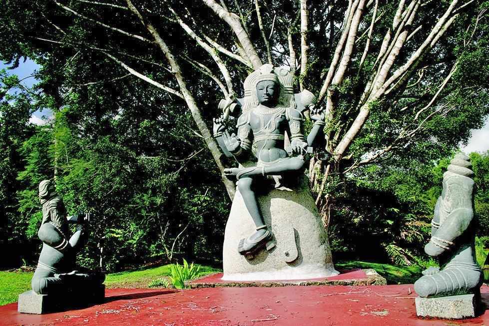 Dakshinamuthy statue at the kauai hindu monastery.